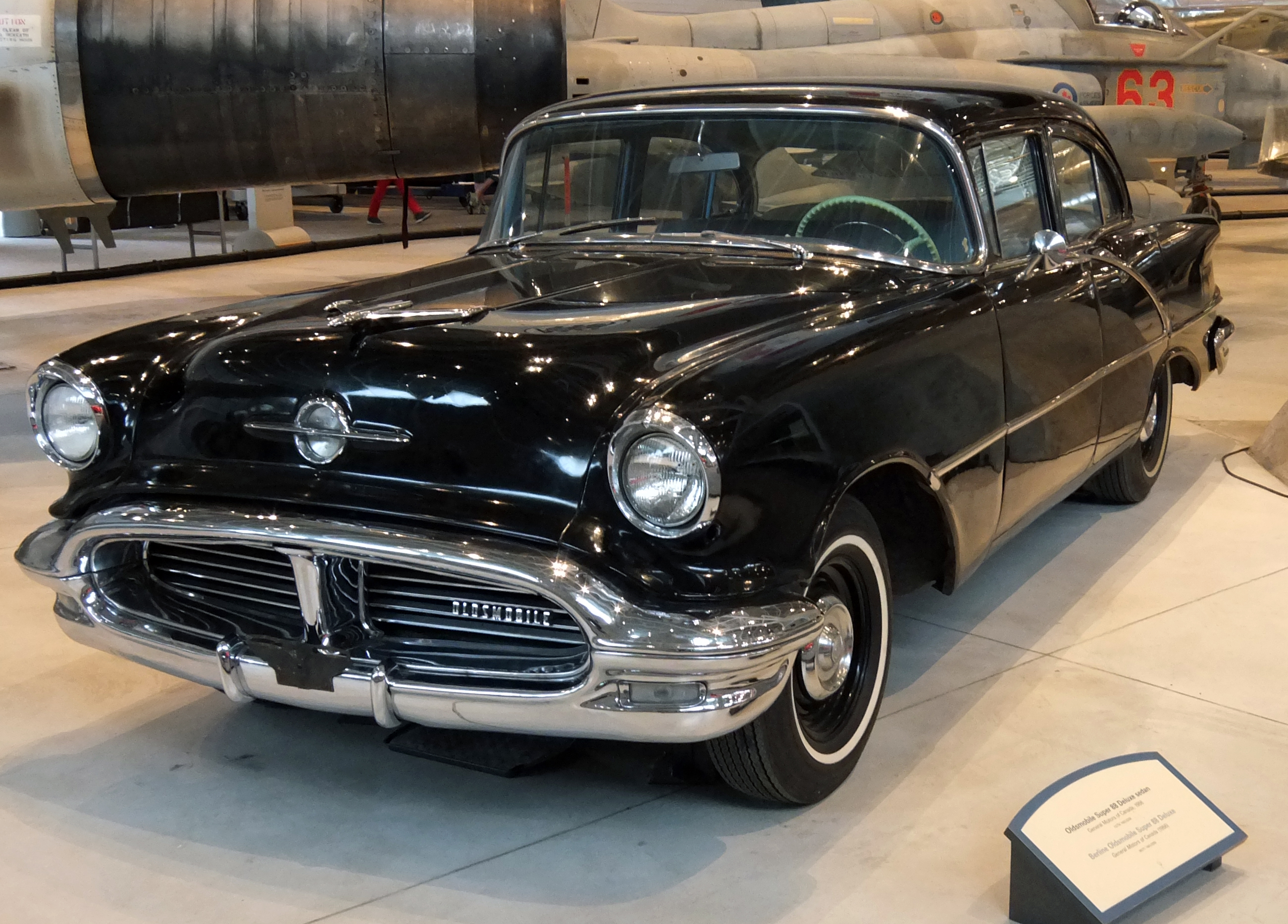 A change from aircraft, here is a 1956 Oldsmobile Super 88 Deluxe Sedan on display in the Canadian Aviation Museum. I was probably used as a staff car or as a support vehicle for officials who flew the planes. (Ottawa, Canada, June 2015)